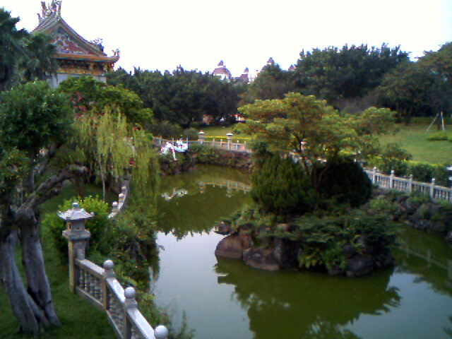 The Chinese traditional garden of Zulinshan Guanyin Temple.